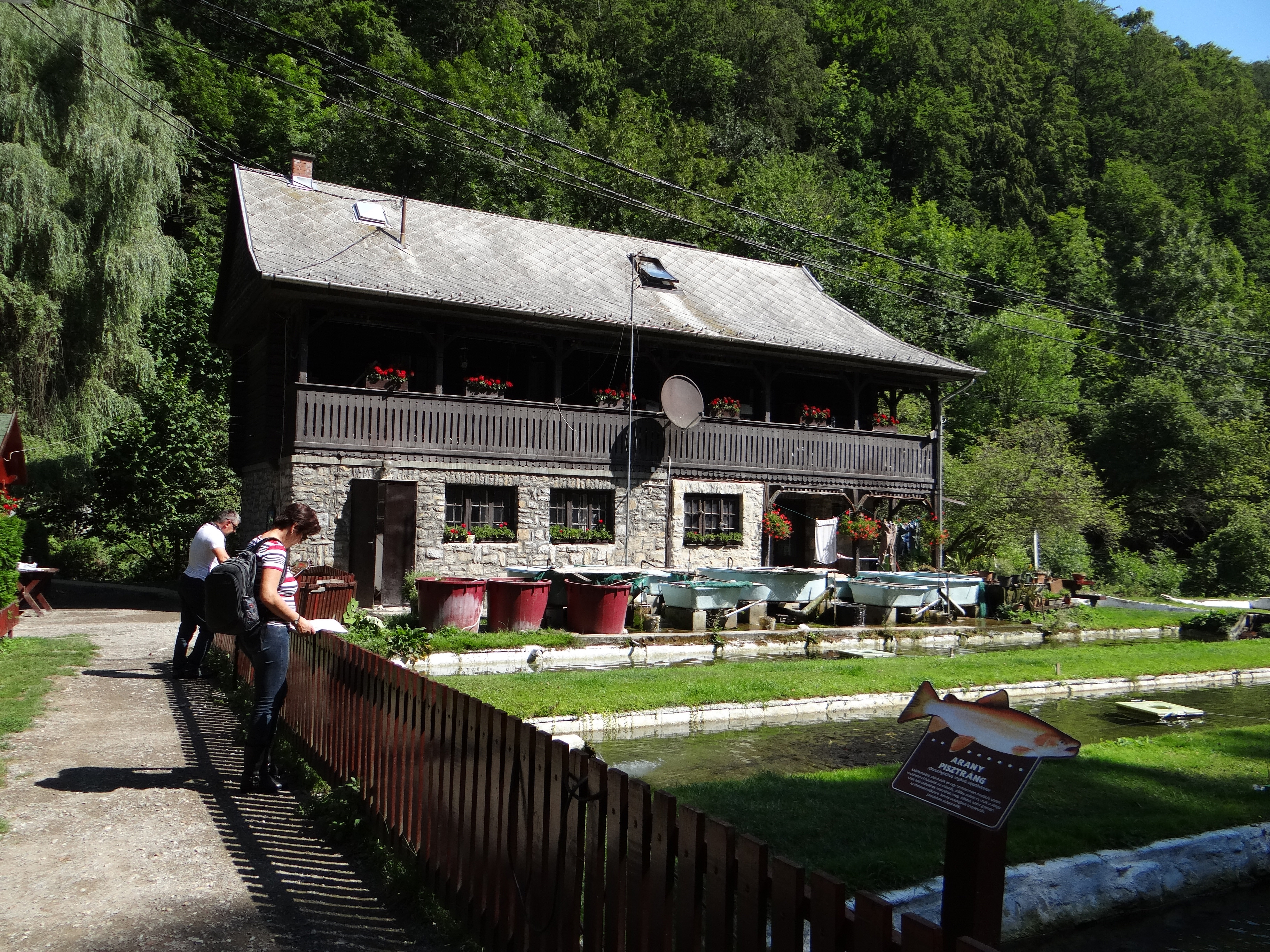 The old building in the Lillafüred trout plant, Hungary